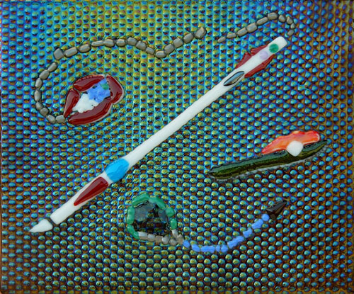 A fused glass plate, made and photographed by Tad Boniecki.